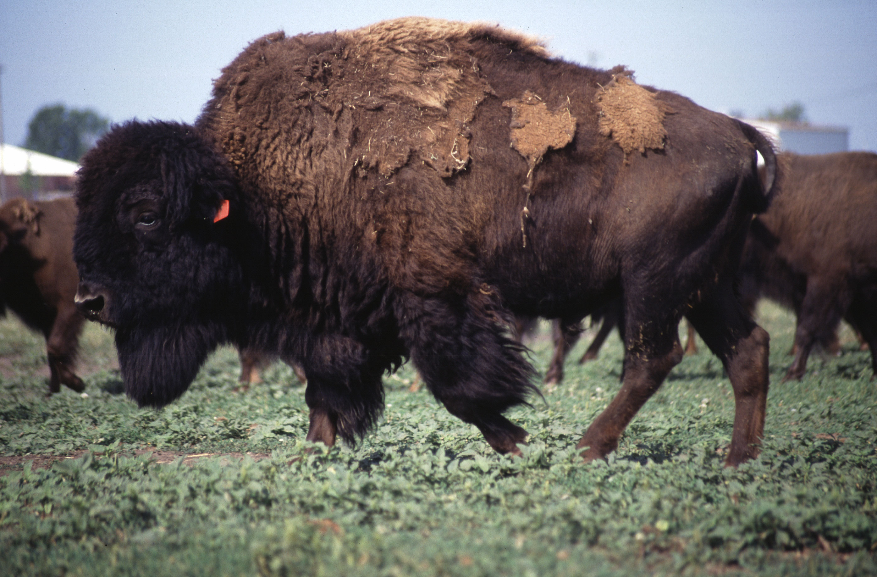 This bison is part of a 13-head herd involved in a brucellosis vaccine study at the National Animal Disease Center in Ames, Iowa. Image Number K7846-10